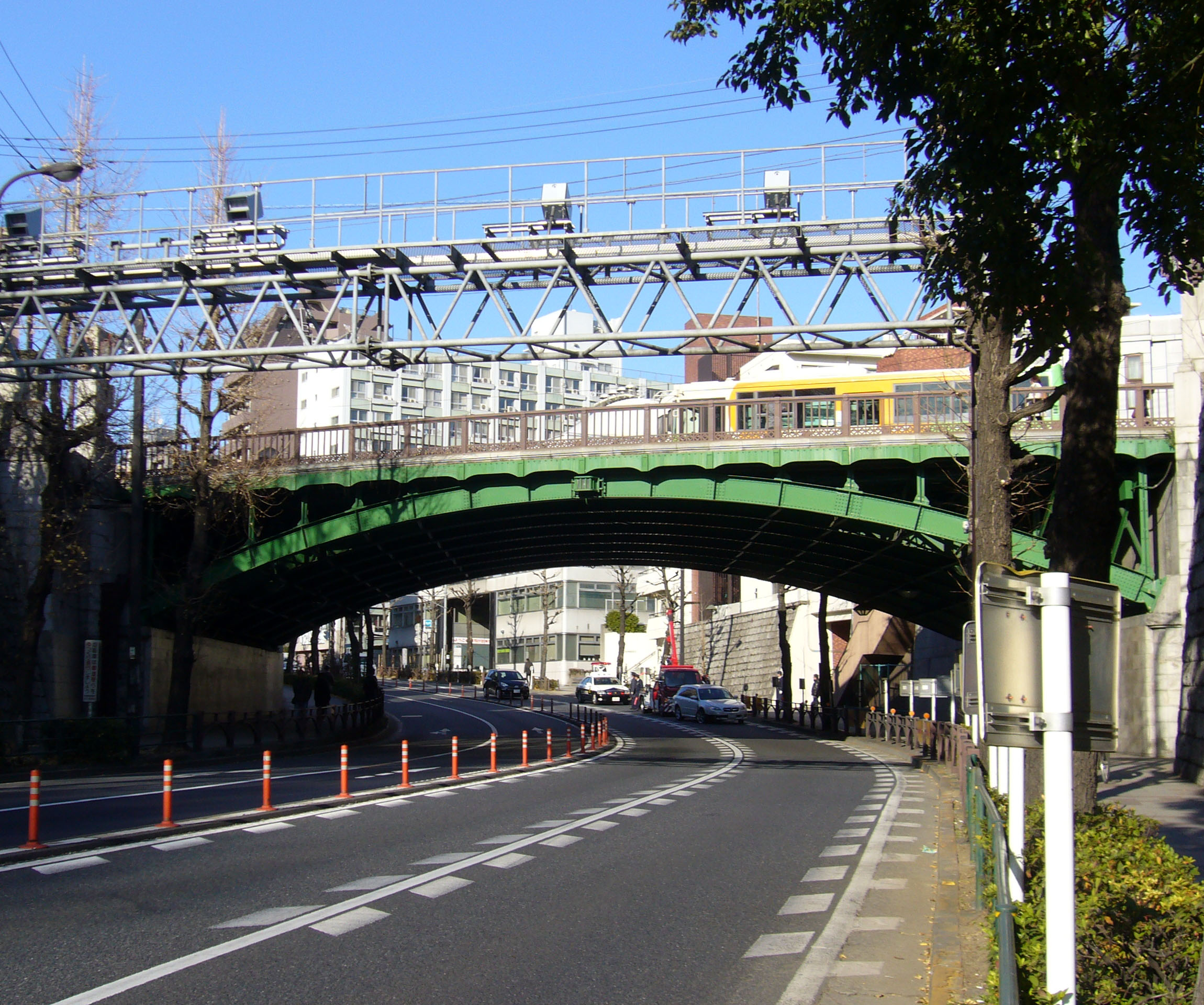 Chitosebashi (Iron bridge in Tokyo, Japan)